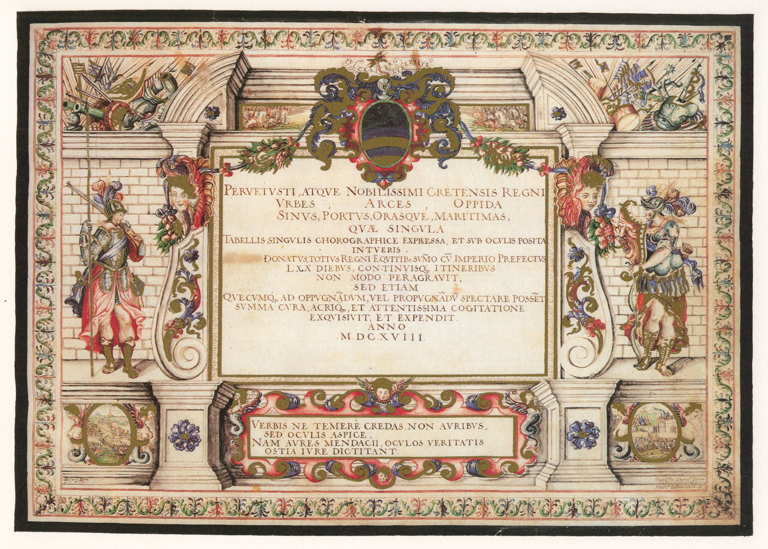 Cretae Regnum, title page - Francesco Basilicata - 1618